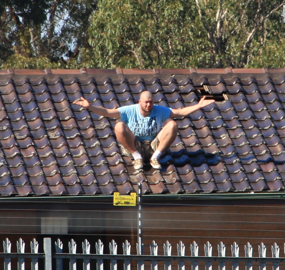 Asylum seeker protesting at the Villawood detention centre in Sydney